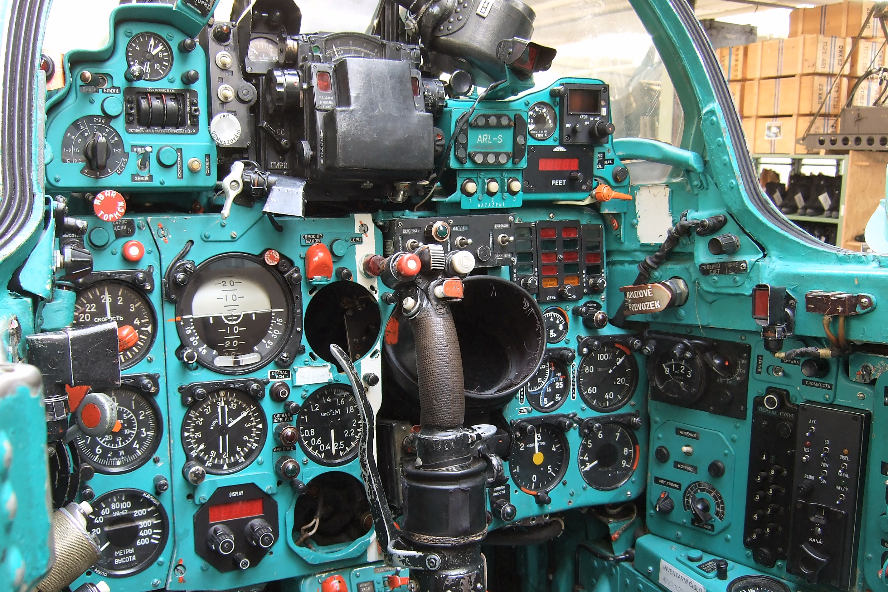 Mikoyan-Gurevich MiG-21MF number 5303 of the Czechoslovak Air Force, now in the Military-Megastore in Montlingen, Switzerland. Jan 3, 2009.